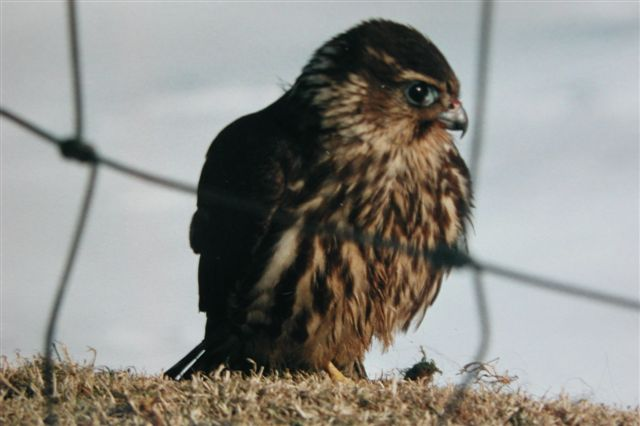 Merlin Falco columbarius, Faroe Islands